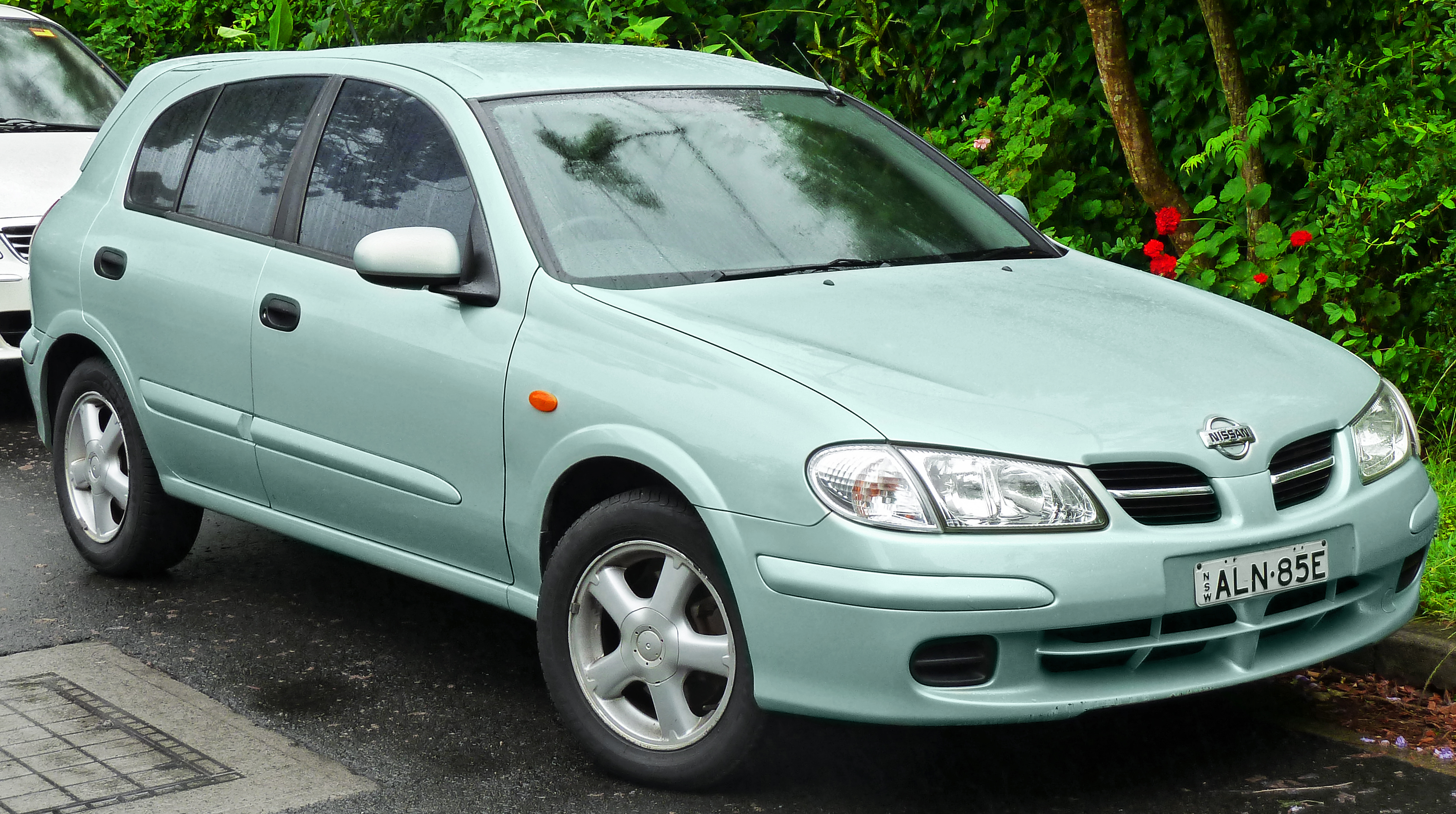 2001 Nissan Pulsar (N16) Q 5-door hatchback. Photographed in Roseville, New South Wales, Australia.